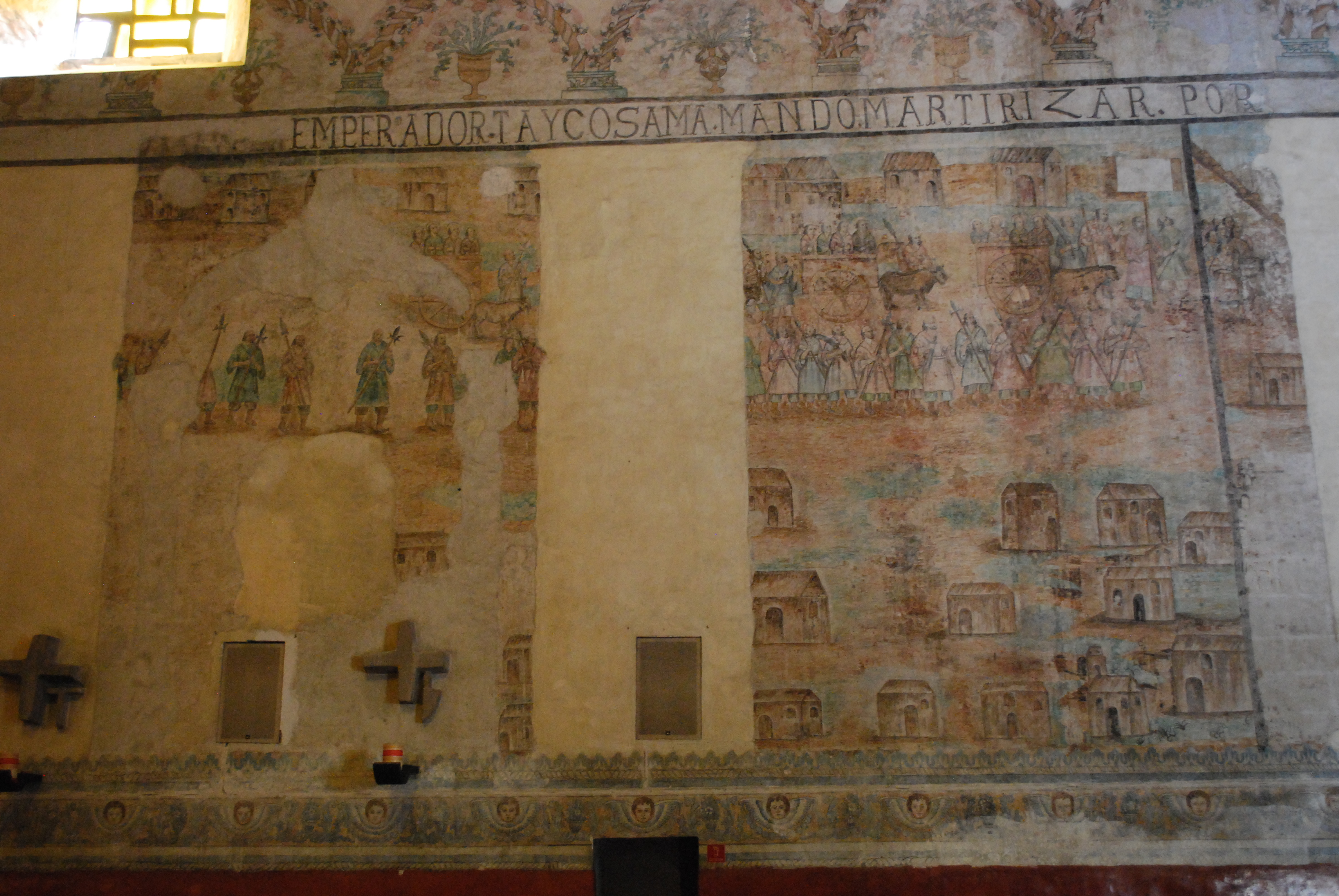 Part of the mural work inside the Cathedral of Cuernavaca, Mexico